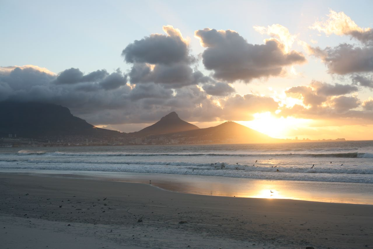 The City Bowl of Cape Town seen at sunset from Milnerton Beach in January 2006.